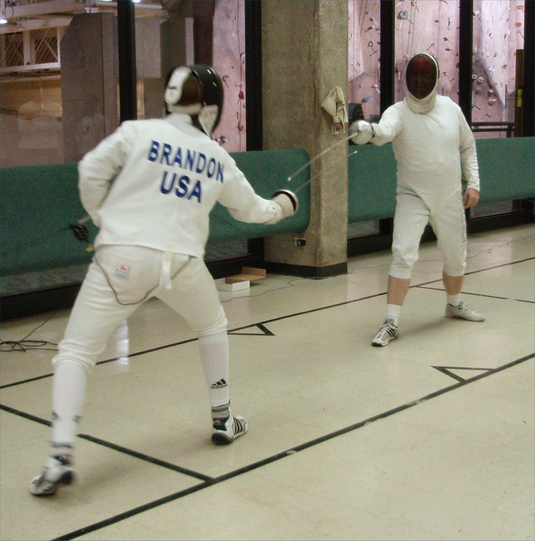 Epee fencing